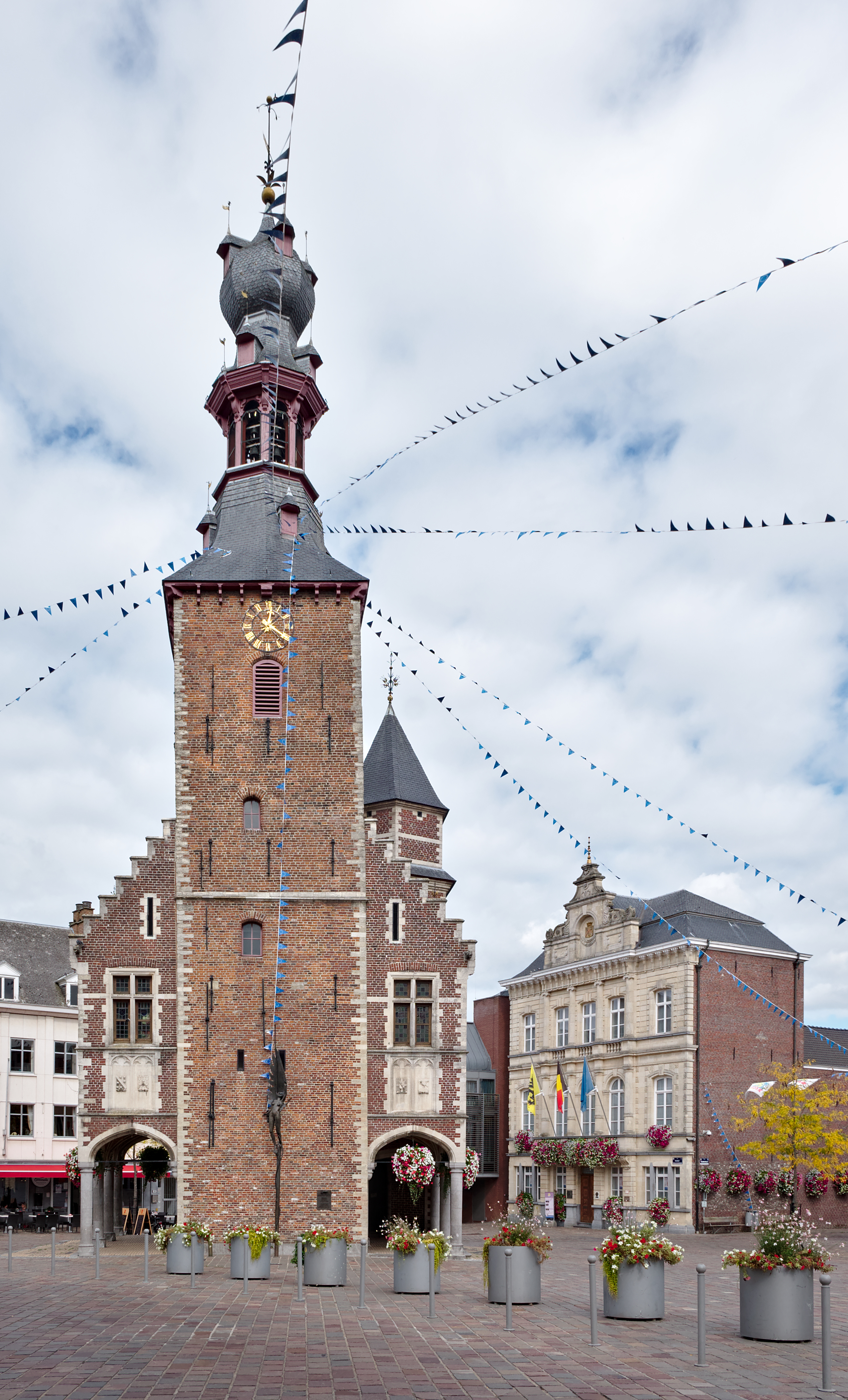 Belfry and town hall of Tielt This photo of immovable heritage has been taken in the Flemish Region This place is a UNESCO World Heritage Site, listed as Belfries of Belgium and France.